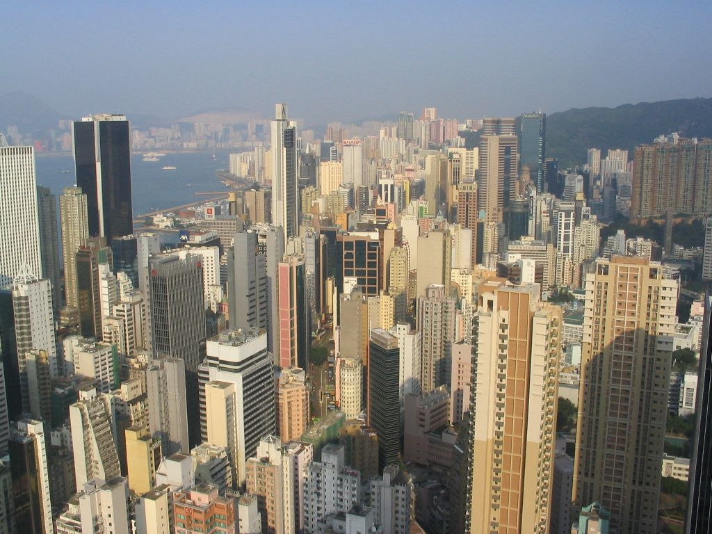 View of Wanchai from Hopewell Centre